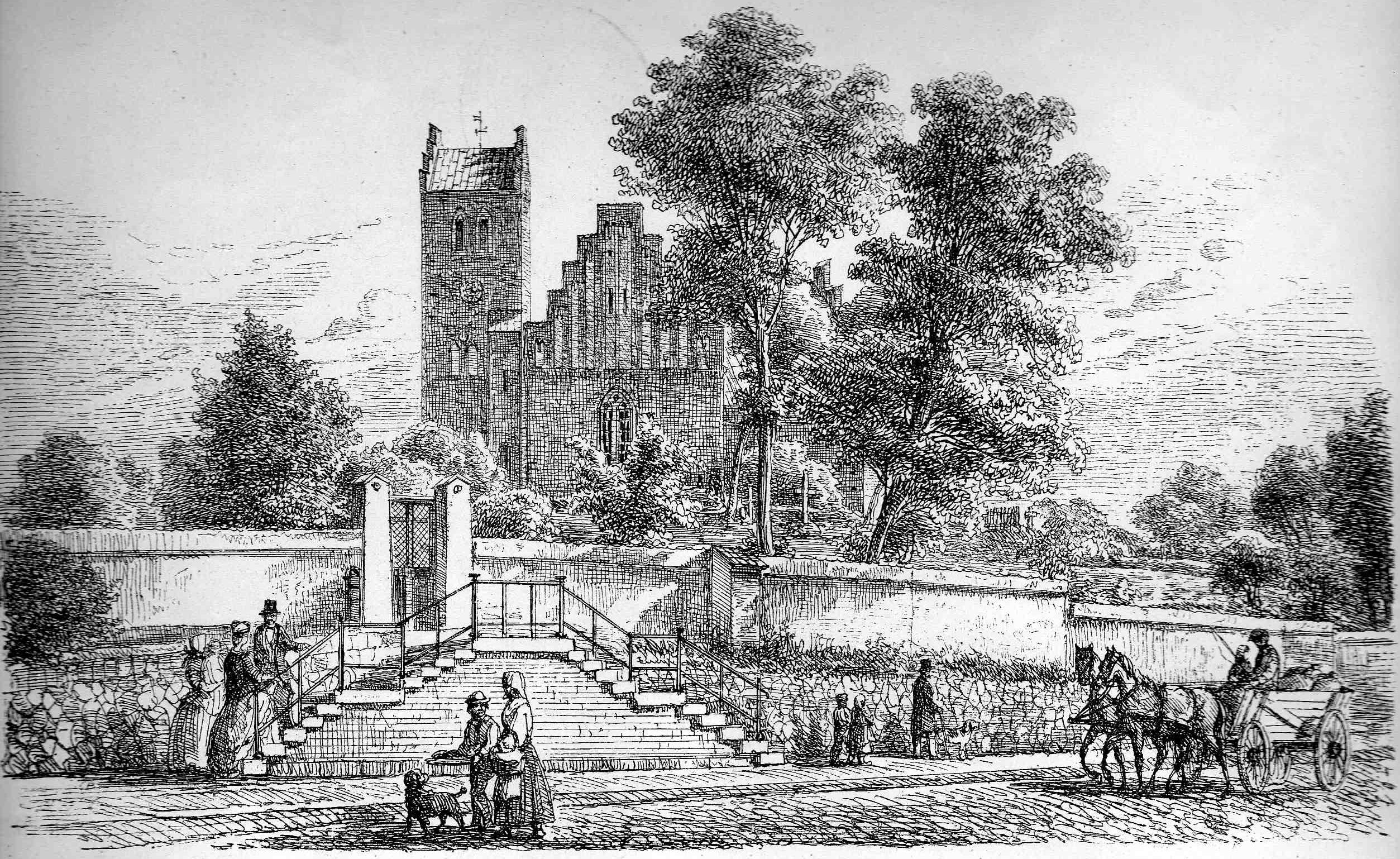 Scanned by myself from the old book in 2007. The book was graciously lent to me by Det Kongelige Garnisonsbibliotek.